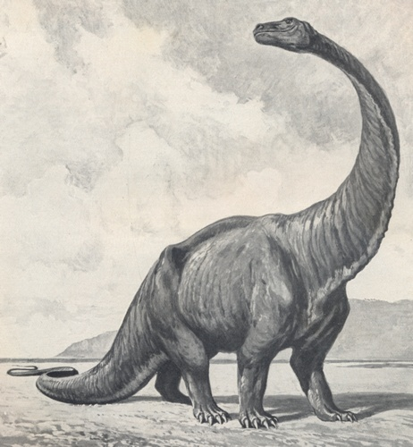 "Gigantosaurus" (=Tornieria): The Wonderful Paleo Art of Heinrich Harder - Illustrations for Die Wunder der Urwelt 1912